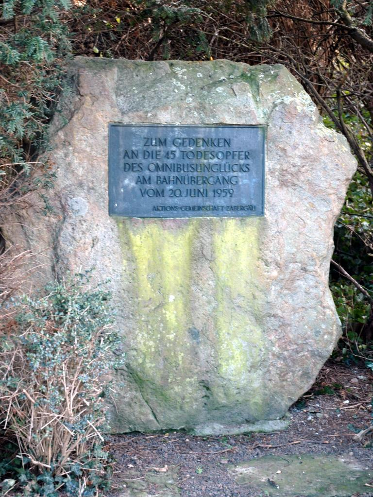 memorial stone for the bus accident in 1959 in Lauffen am Neckar.